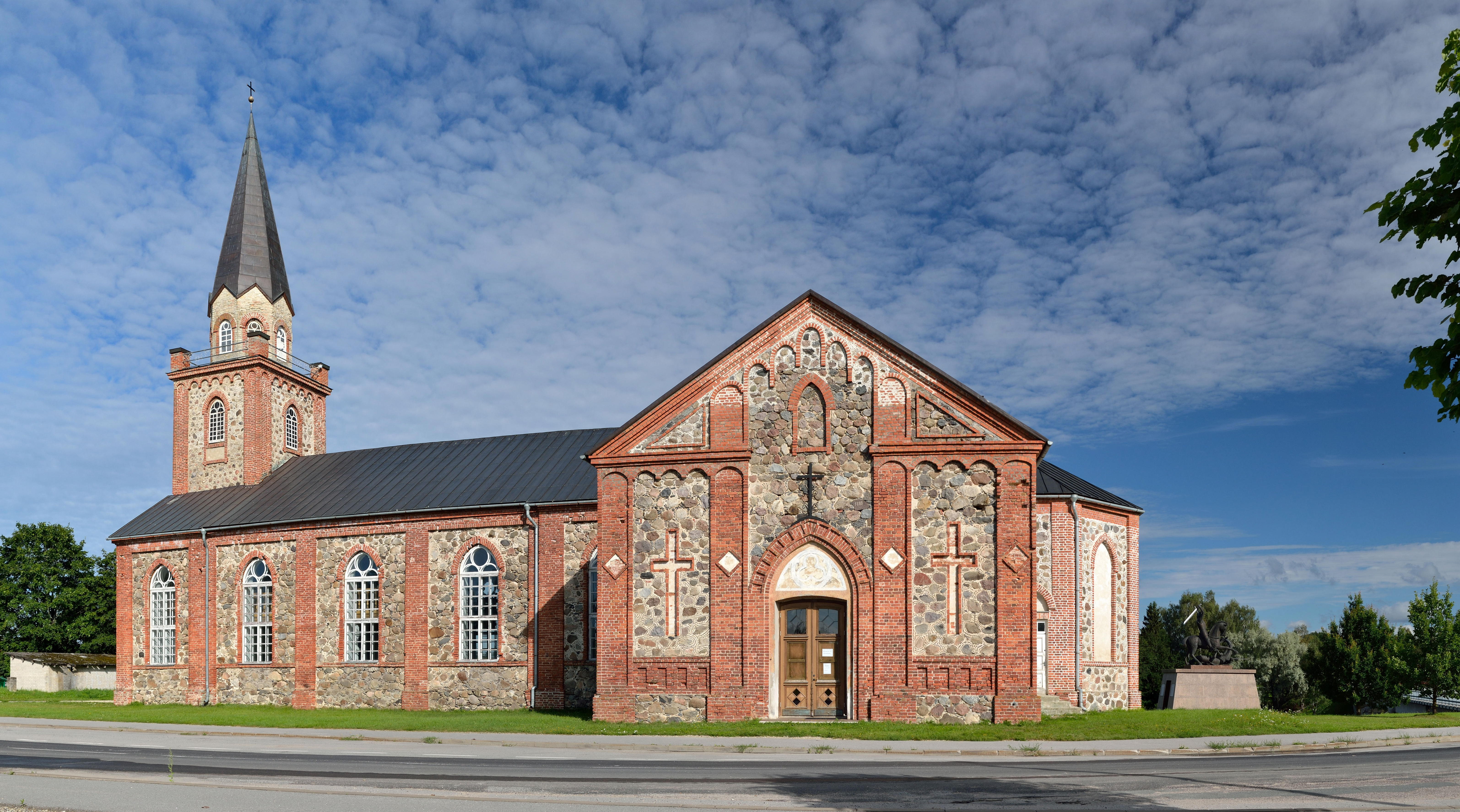 Tori church